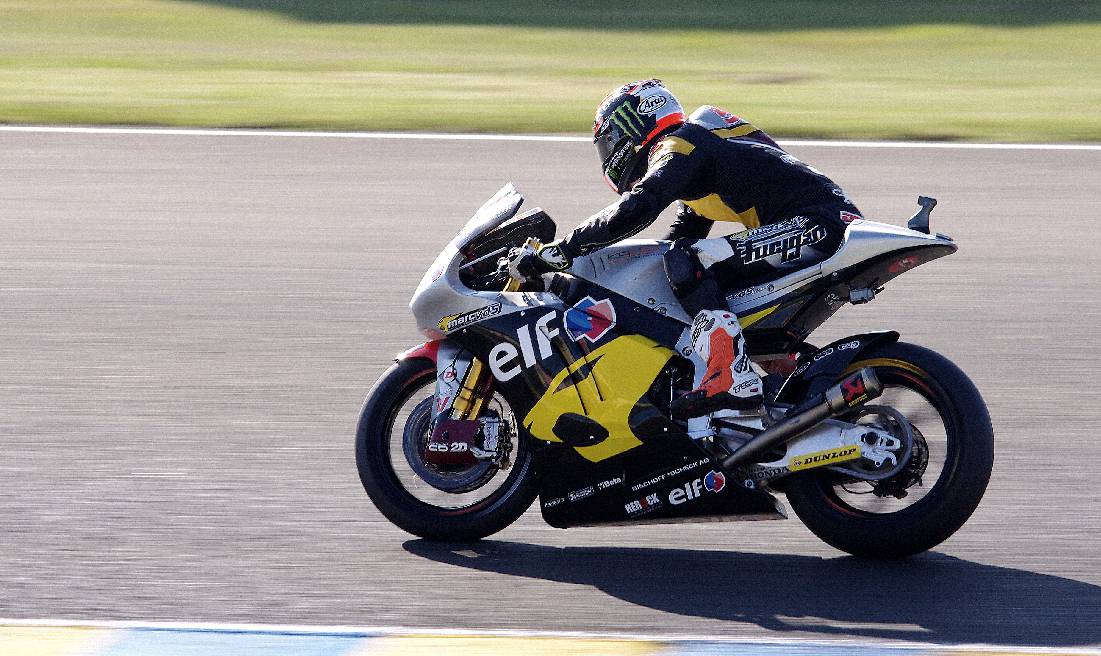 Esteve RABAT - Marc VDS Racing Team - Moto2 2014 - Le Mans